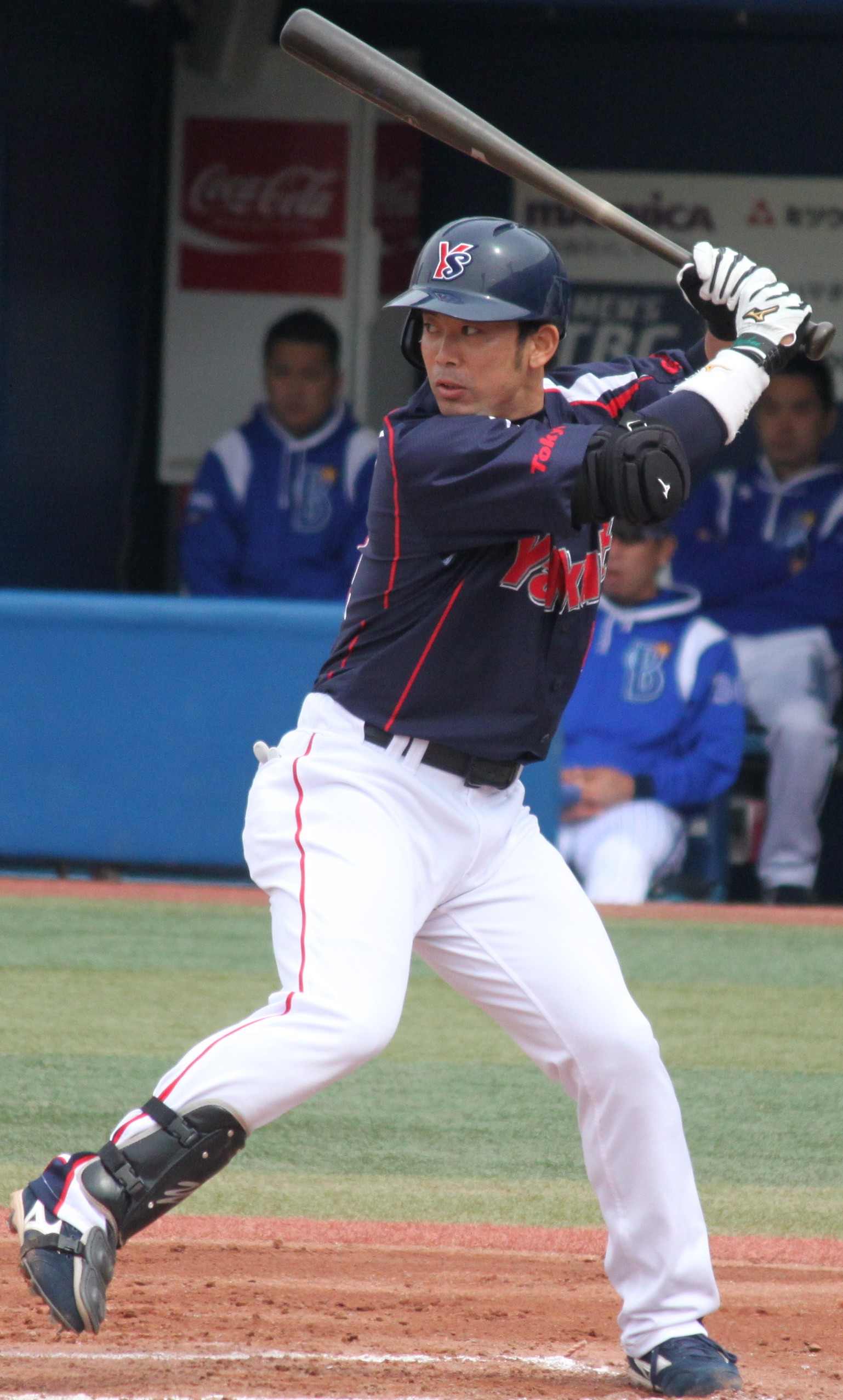 Yuhei Takai, outfielder of the Tokyo Yakult Swallows, at Yokohama Stadium.